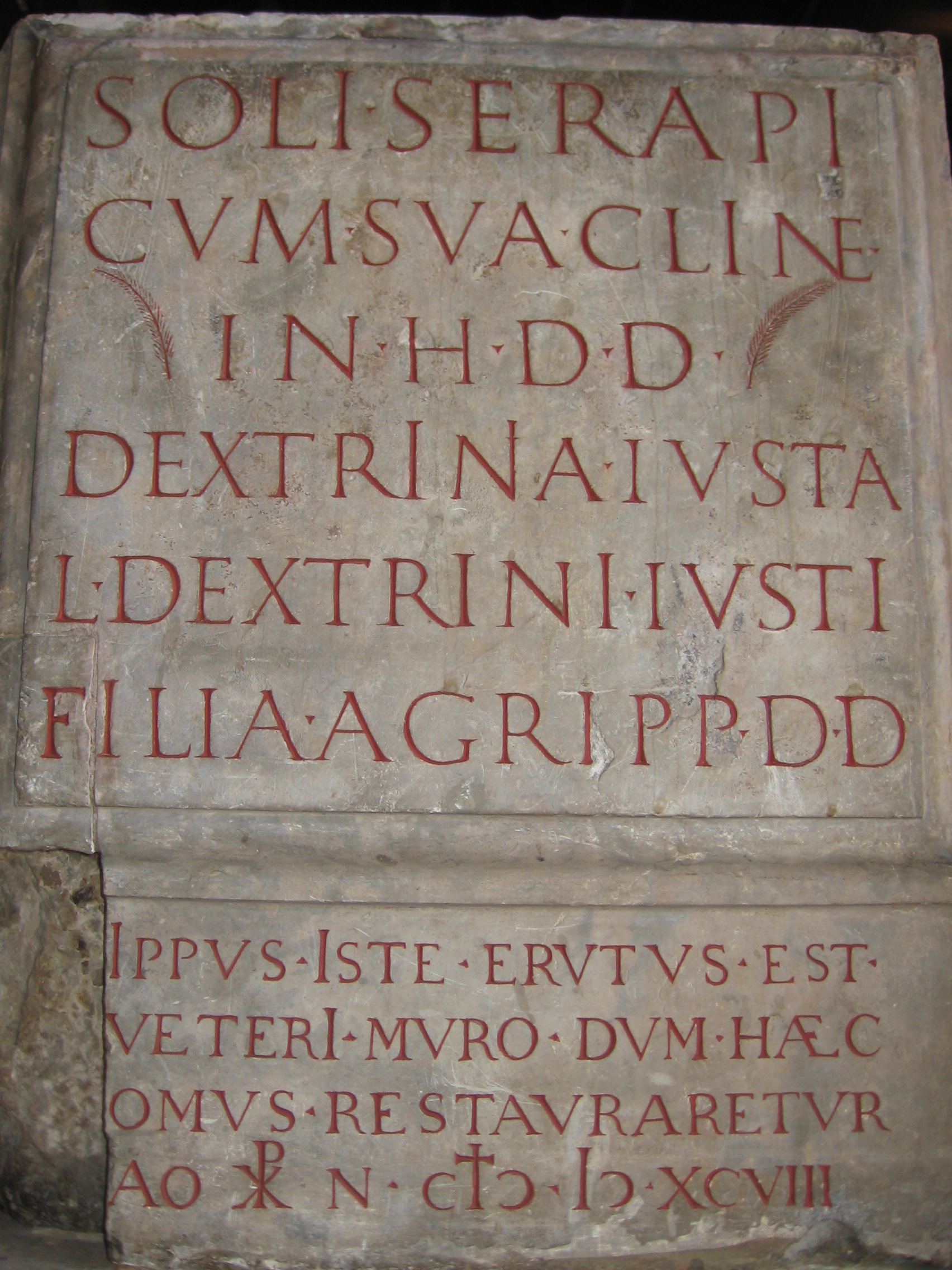 The stone can be found in the Römisch-Germanisches Museum in Cologne, Germany.